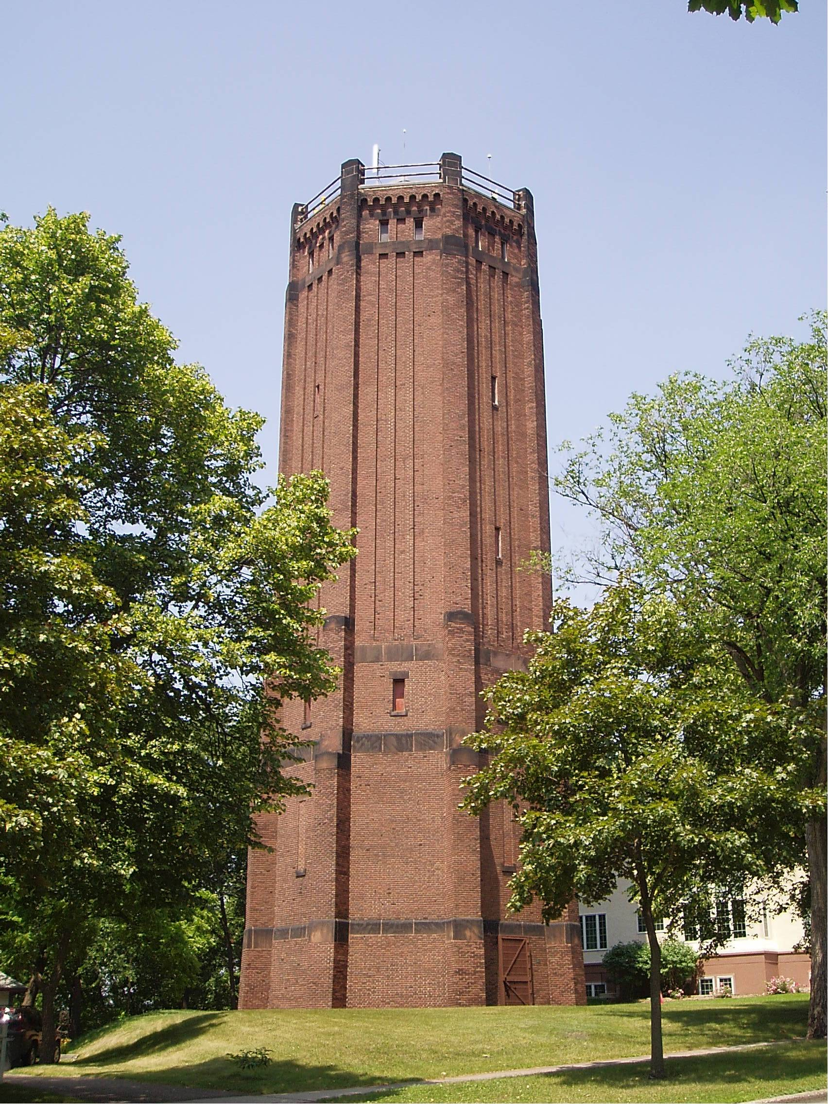 Kenwood Park Water Tower